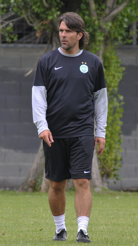 Péter Lipcsei, former Hungarian association football player.